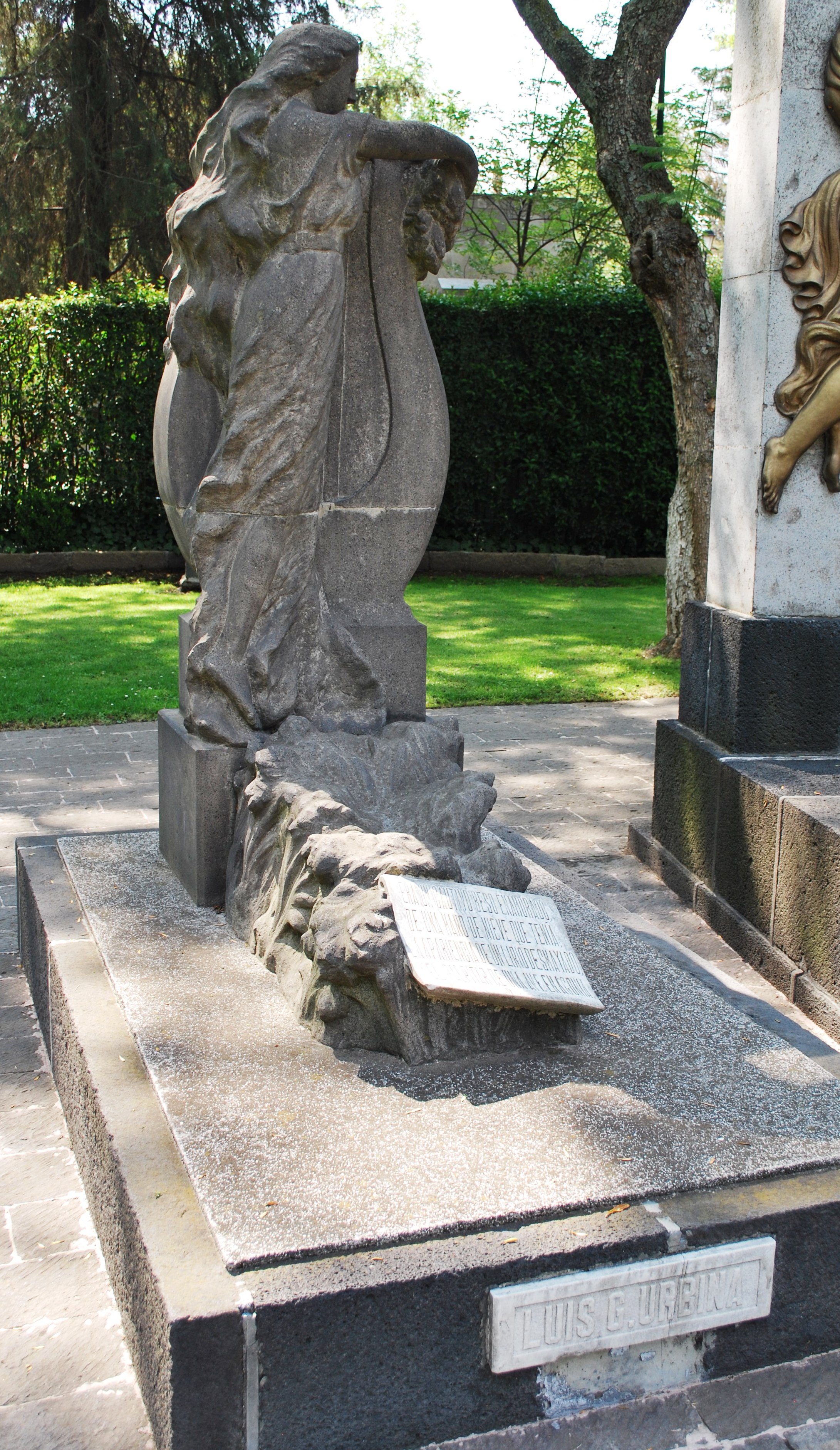 Tomb of Luis G Urbina in the Panteon Civil de Dolores cemetery in Mexico City